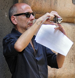 Uki Goni